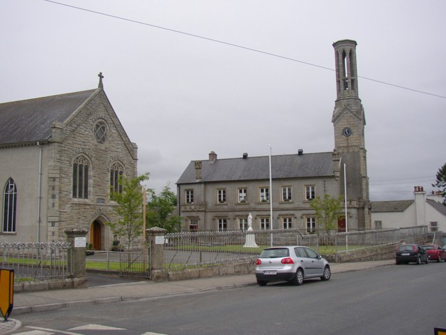 The church and school, Borris, Co. Carlow. The school has a high lantern tower as if it were a church.